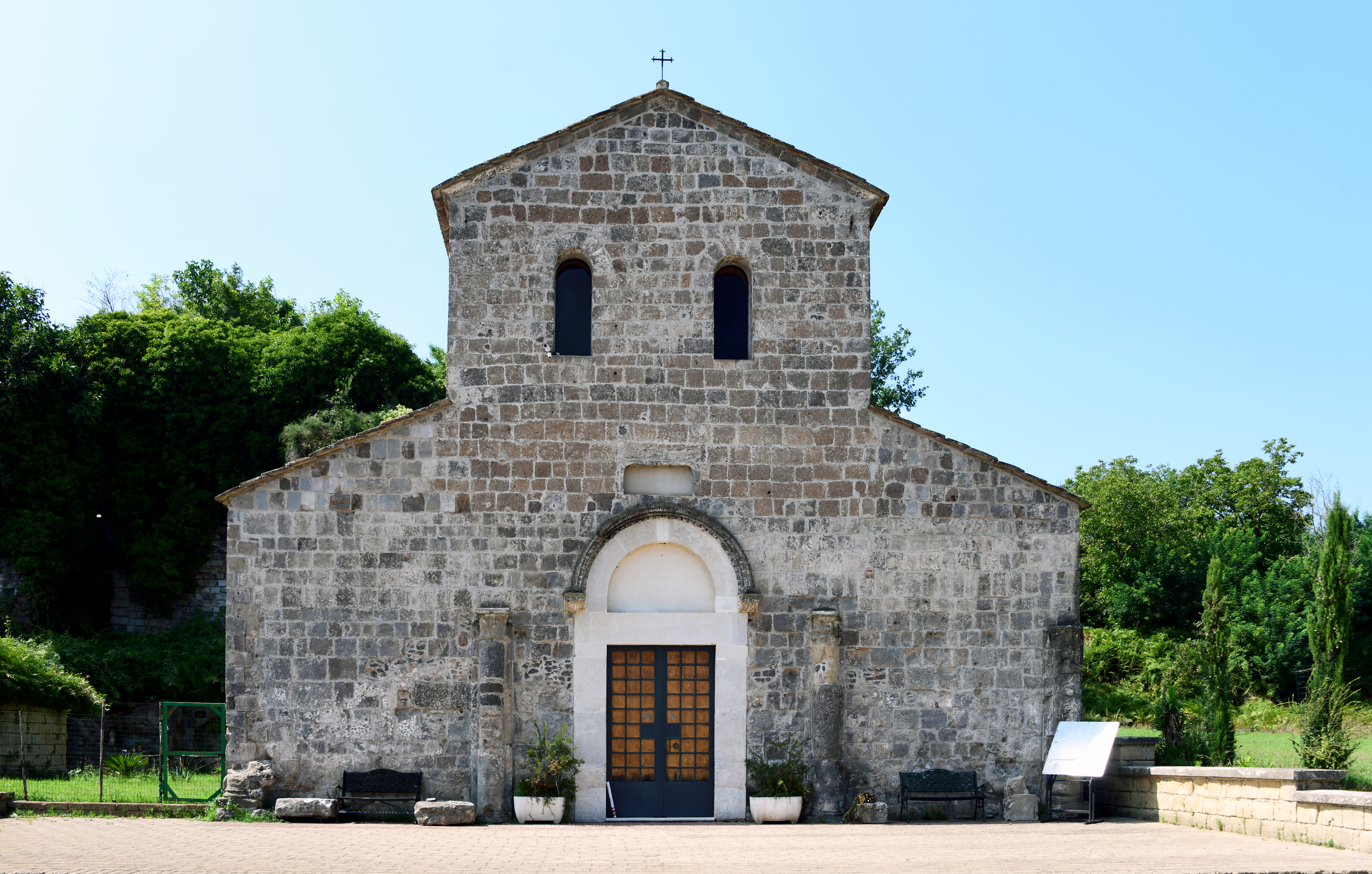 San Paride ad Fontem (Front view) - Teano